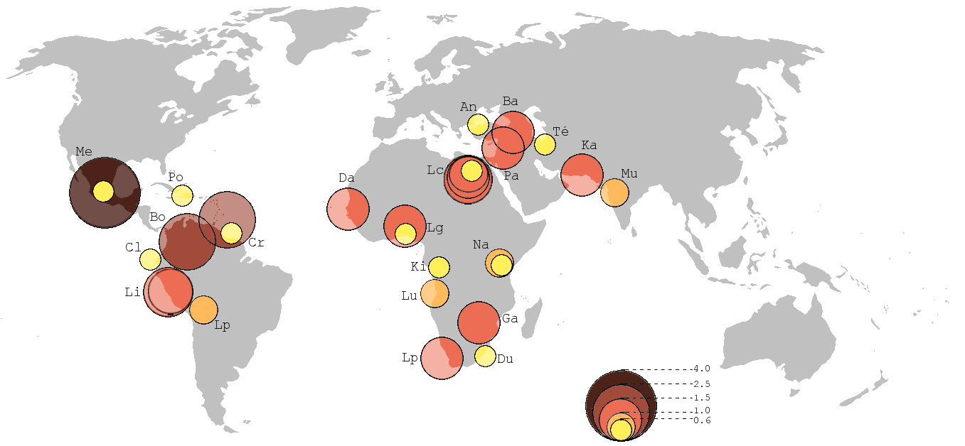 Map representing the location of the 30 biggest "mega-slums" in the World, according to Mike Davis (see below). Data compiled from various sources, taking average values. The circles' size and color indicate the number of inhabitants in millions, while the letter indicate the name of the city (see table below). Note that some cities have several "mega-slums" while other cities may have more inhabitants living in slums, but scattered in many small slums rather than in a few "mega-slums", particularly in South Asia. This map therefore does not show all cities with slums, rather only those with well-known large slums.